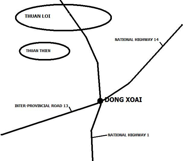 This map depicts the location of Dong Xoai in 1965.